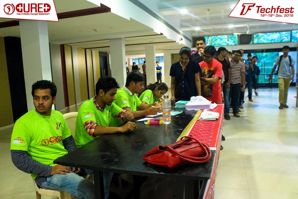 One of the 200 camps set up under the CURED campaign by Techfest, IIT Bombay